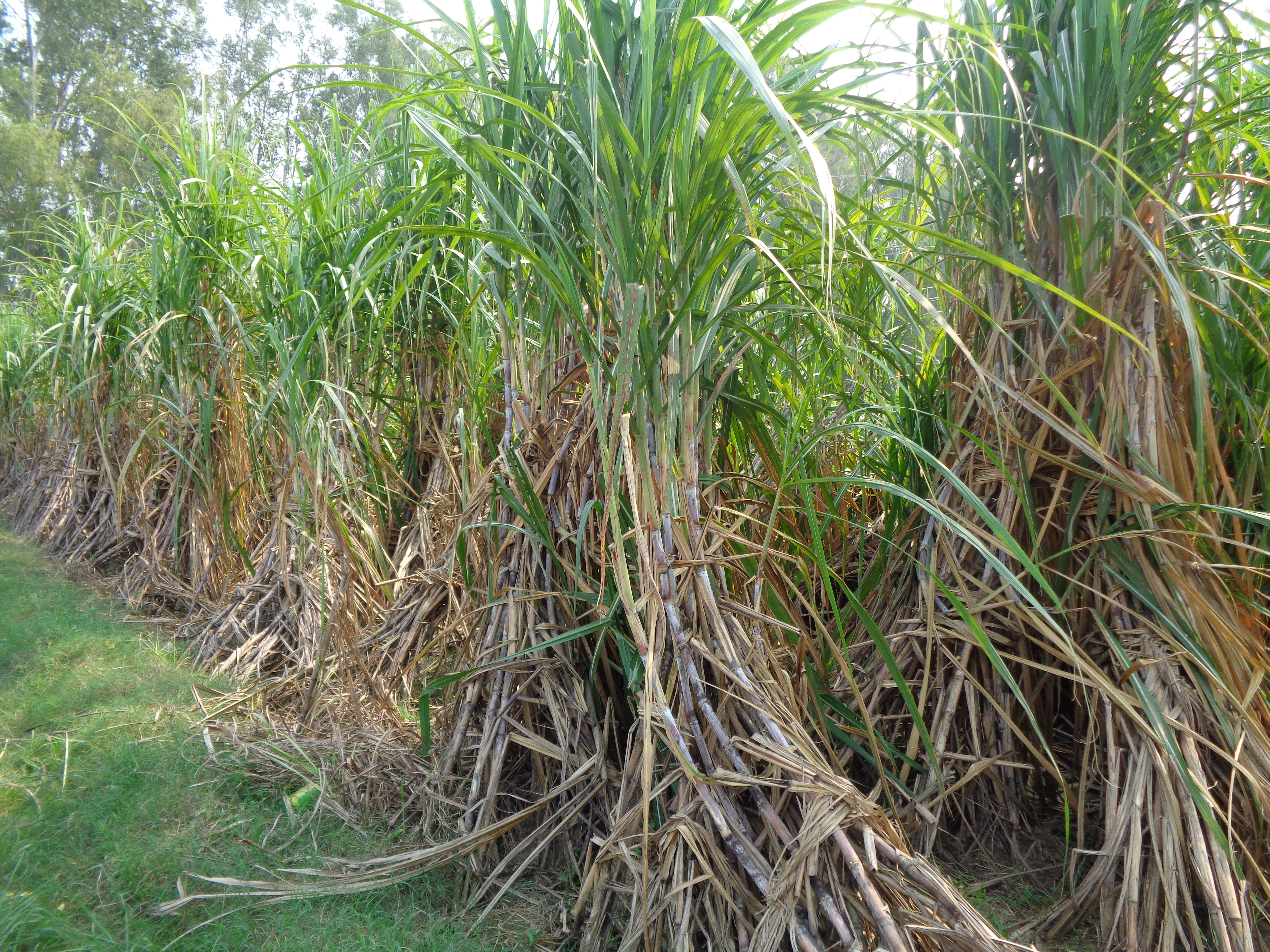 Sugarcane in Hoshiarpur